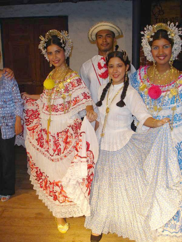 Panamenian Pollera(Anel Salas, 2006)